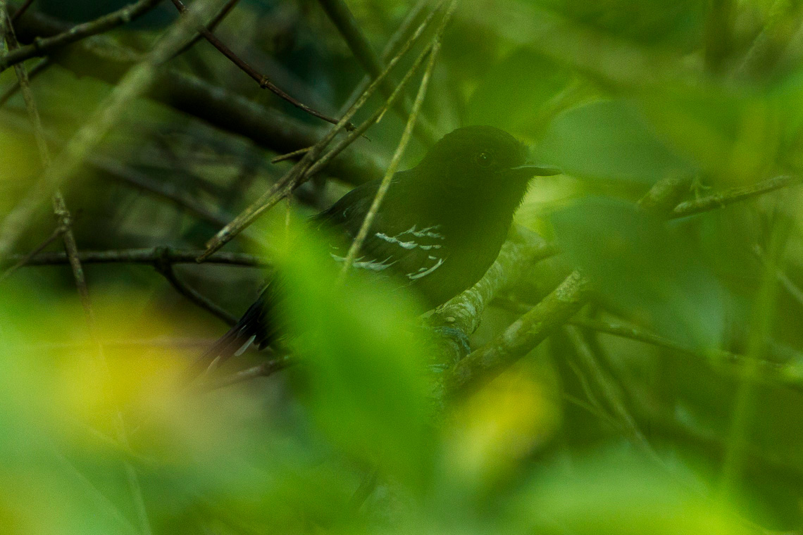 Jet Antbird - Colombia_S4E9202